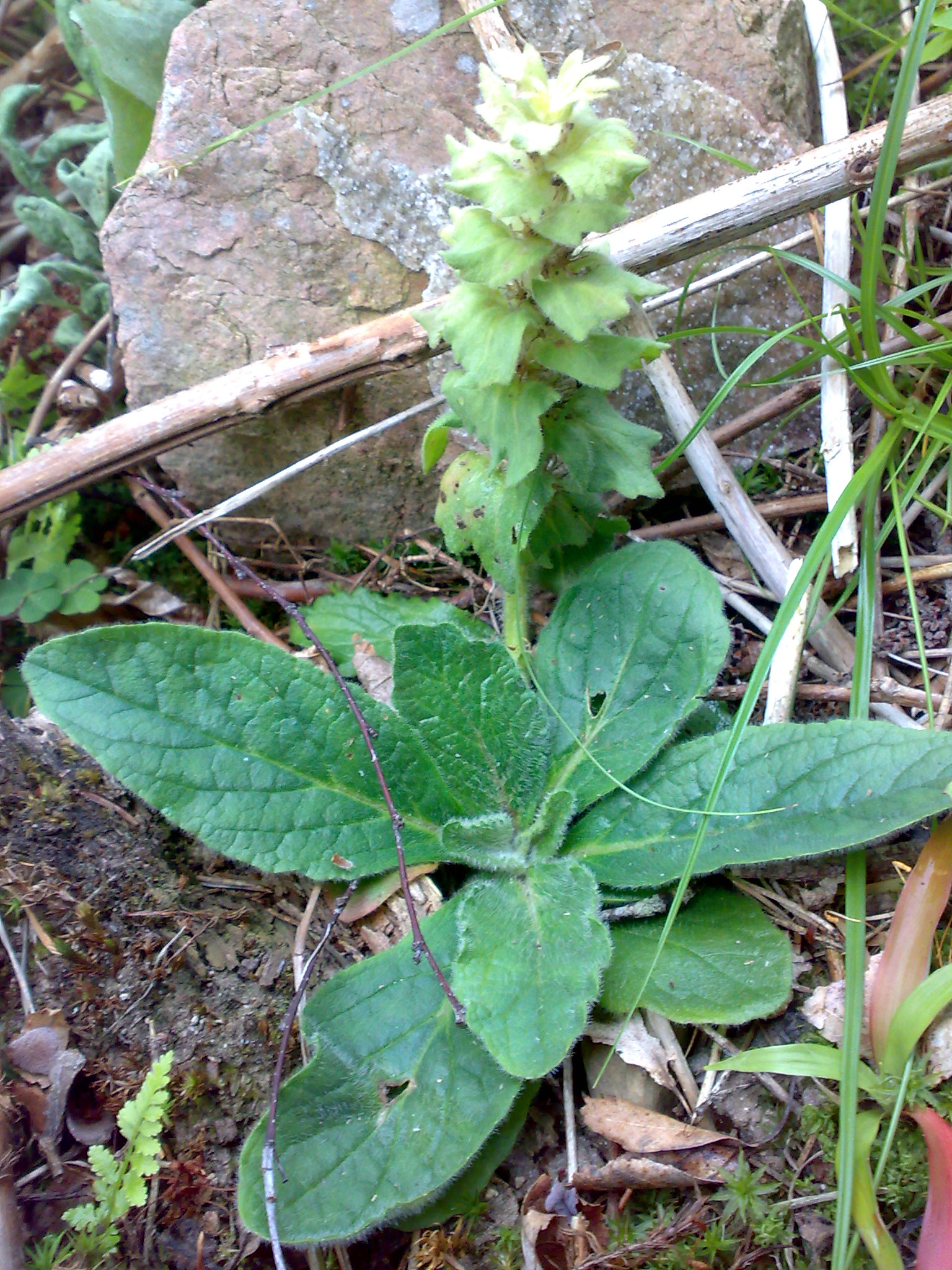 Ajuga pyramidalis in Hurum, Norway